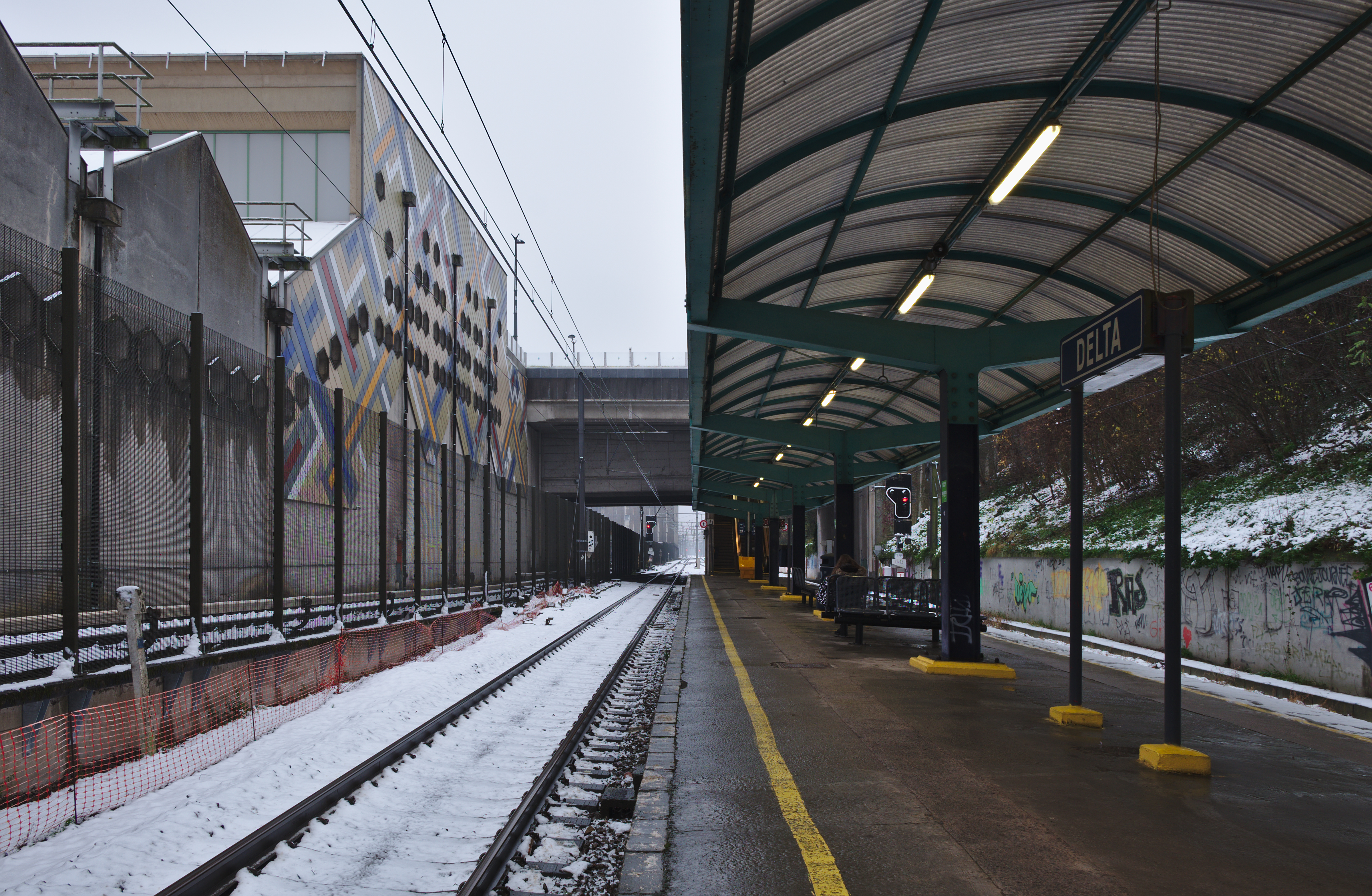 Delta train station on a snowy day (Auderghem, Belgium)